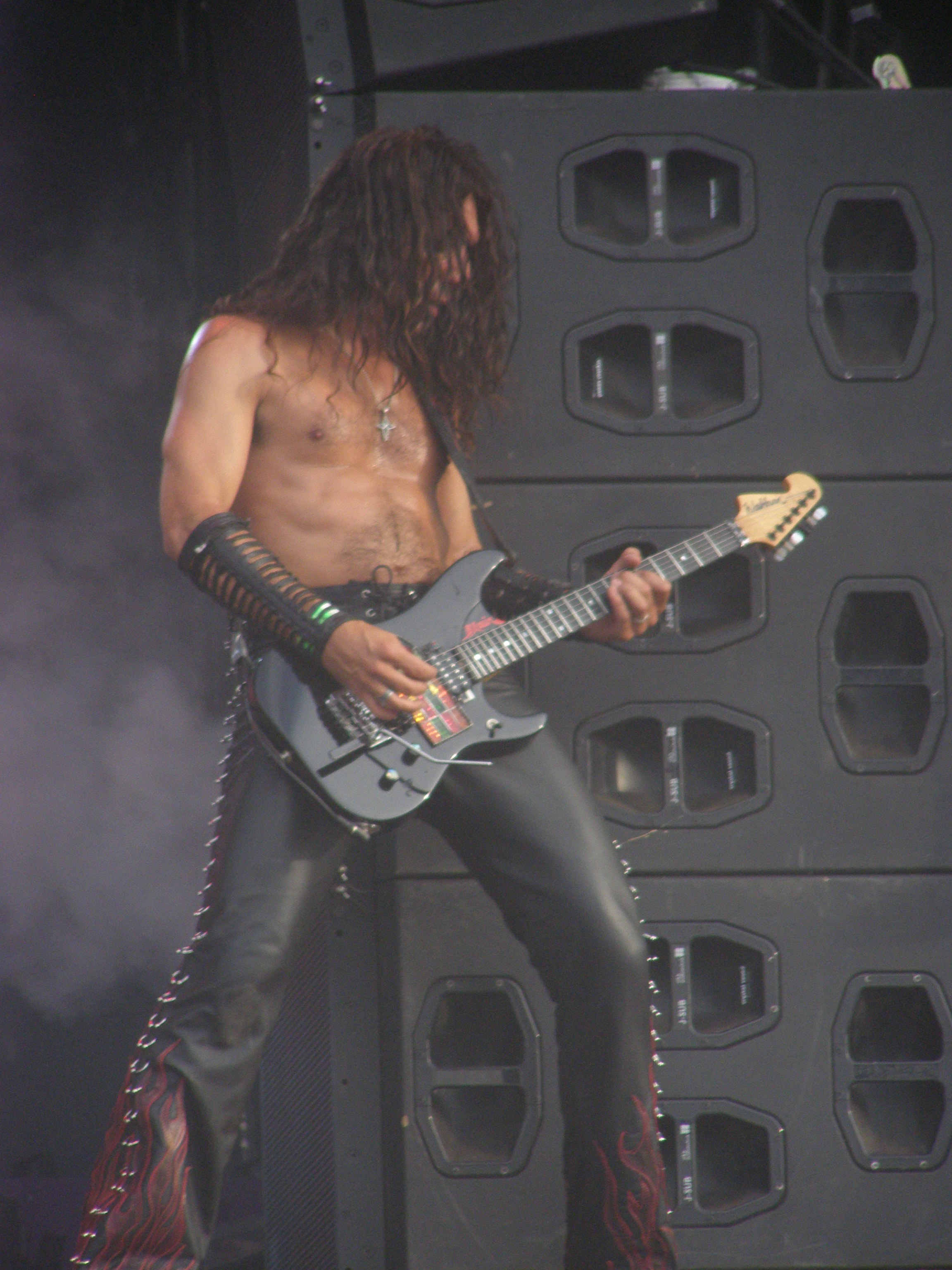 Wasp live in Wacken